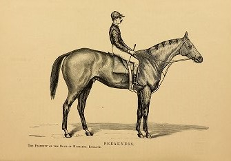 Preakness. Print at Penn, Fairman Rogers Collection.